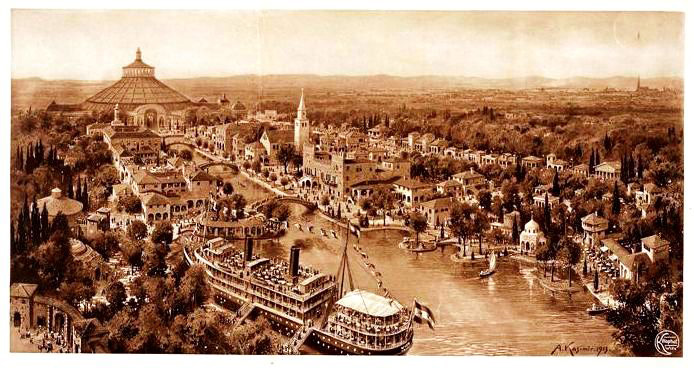 Adria Ausstellung Vienna 1913